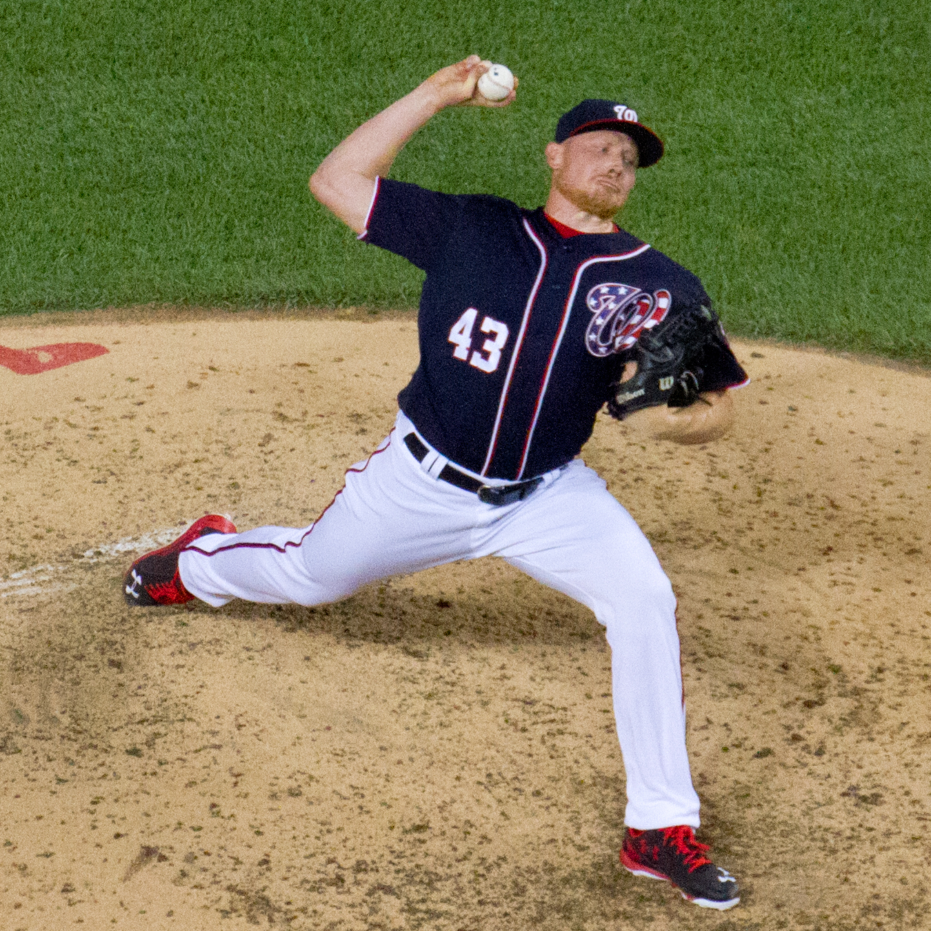 Mark Melancon